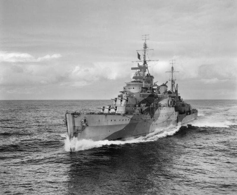 British cruiser HMS LIVERPOOL underway.